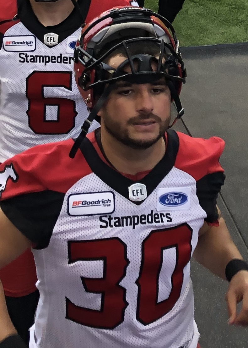 Rene Paredes, placekicker for the Calgary Stampeders.